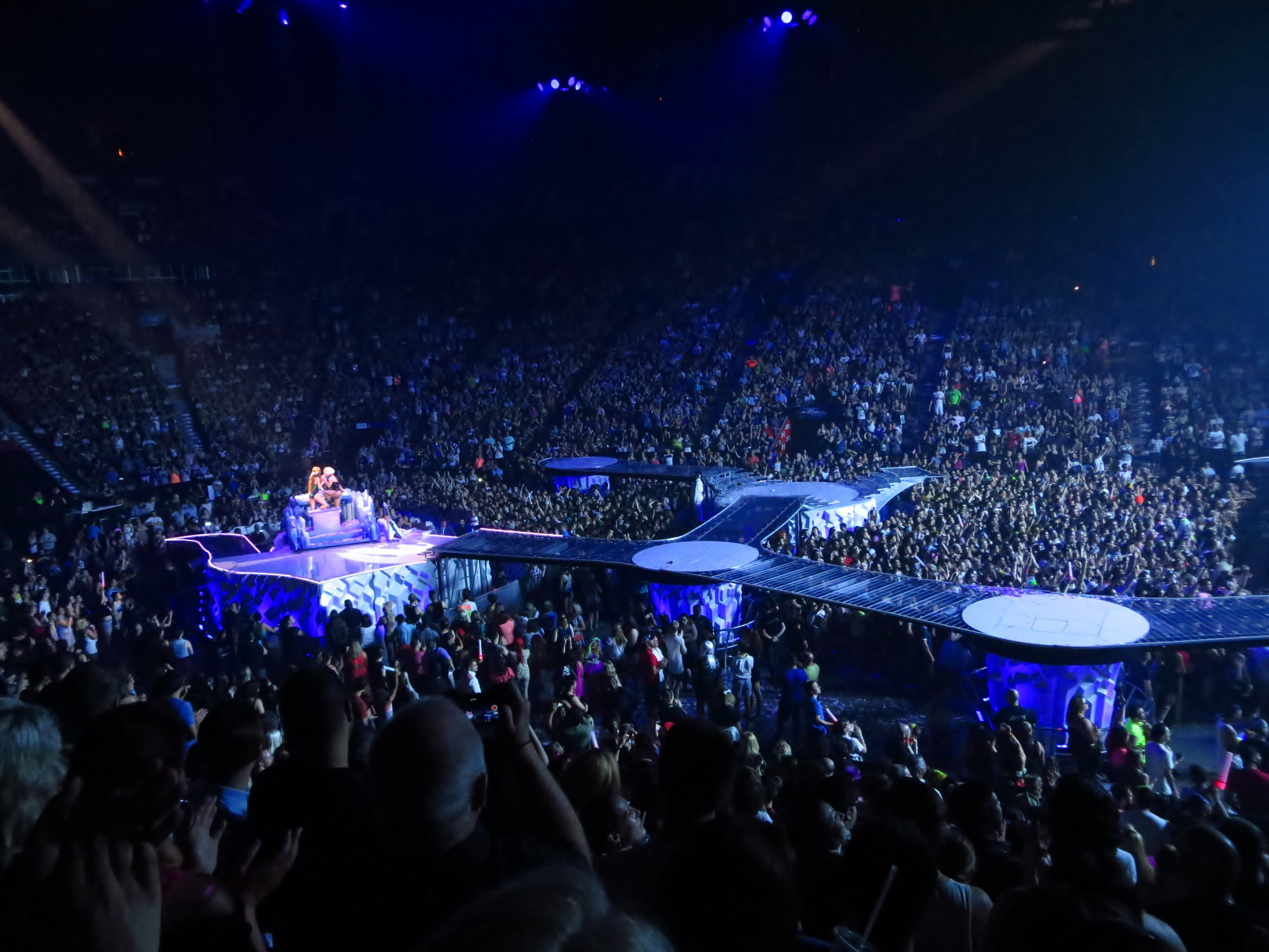 Lady Gaga, Michelle Treacy, ARTPOP Ball Tour, Bell Center, Montréal, 2 July 2014 (81) Gaga performing on ArtRave: The Artpop Ball tour